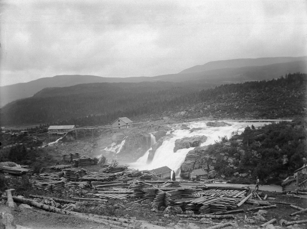 Ryfossen waterfall in Valdres area. Photo taken in Vang Municipality, on the other side Vestre Slidre Municipality. A sawmill on the photo.